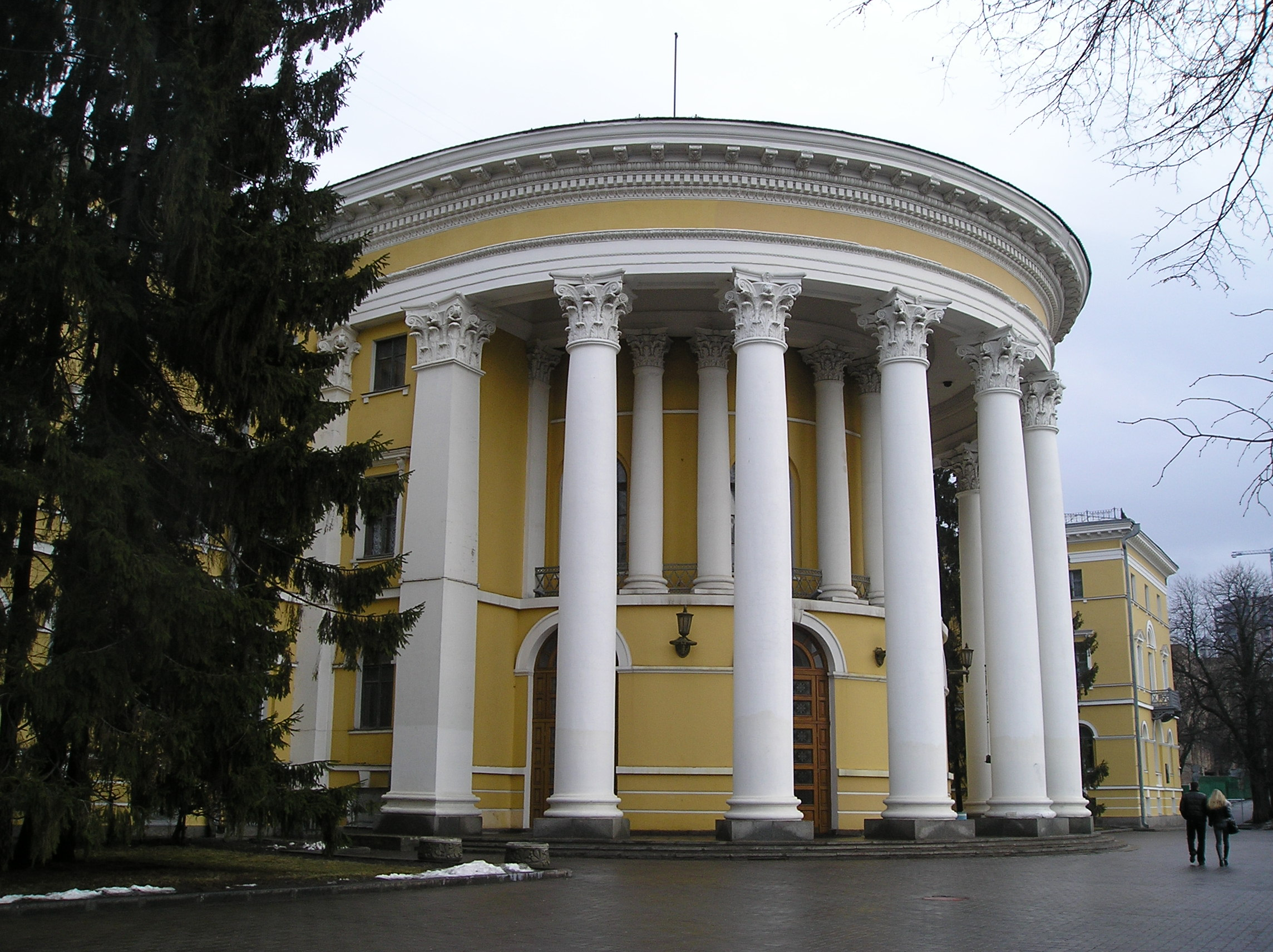 Ukraine.Kyiv.Chrestjatyk.October Palace